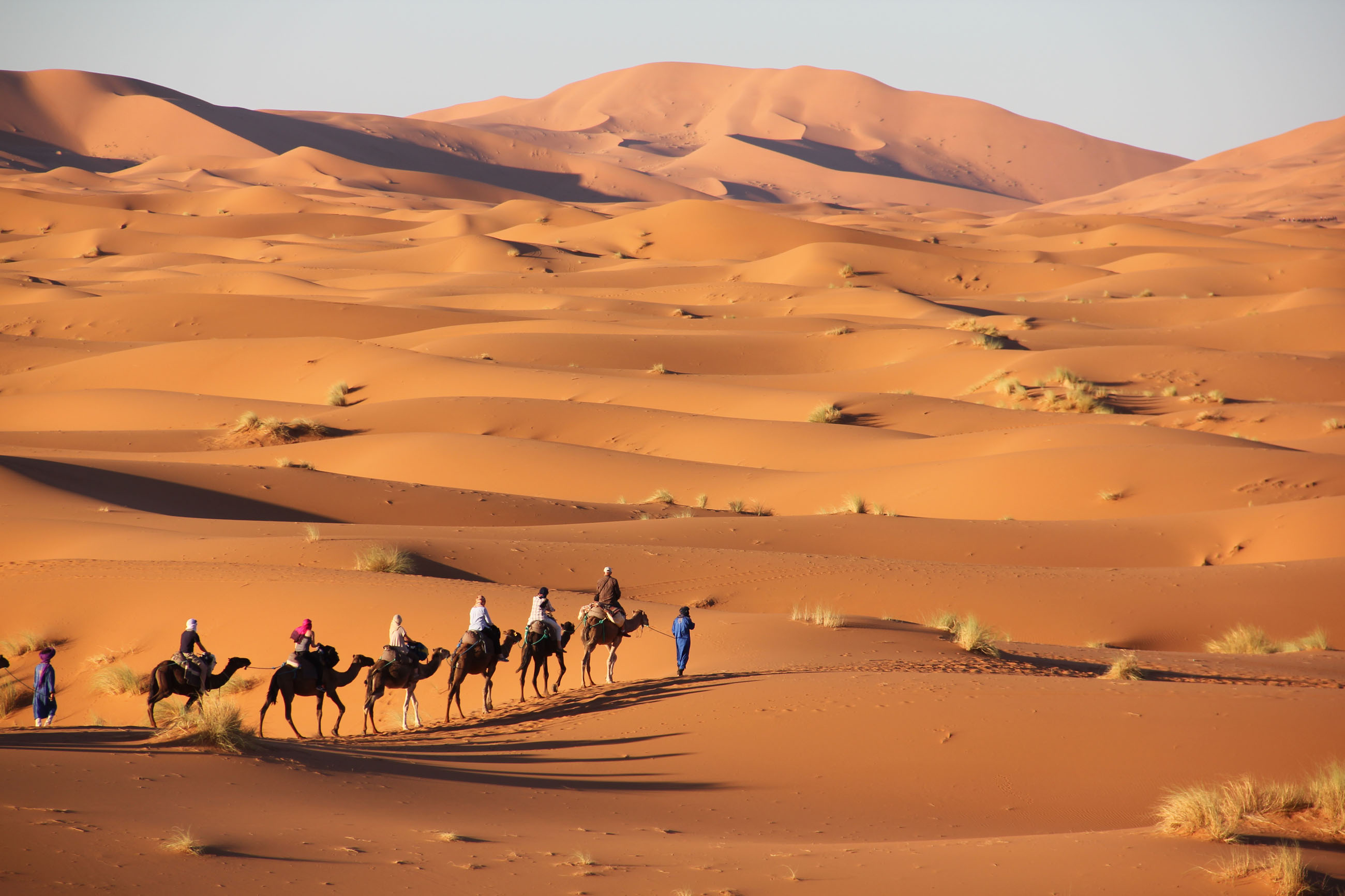 Erg Chebbi, Merzouga, Oasis du Sud Marocain Biosphere Reserve, Morocco